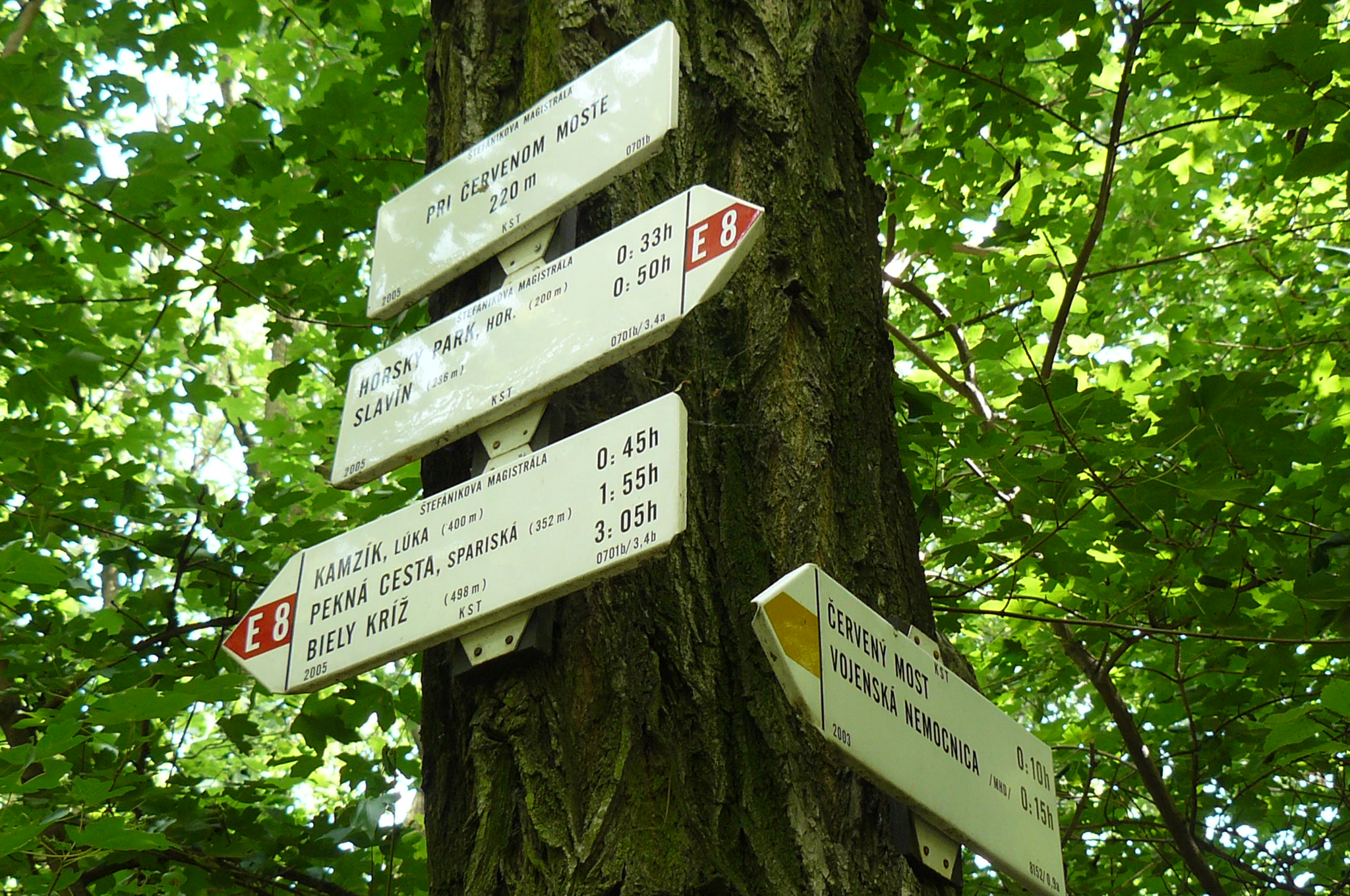 Trail Stefanikova Magistral in Male Karpaty.